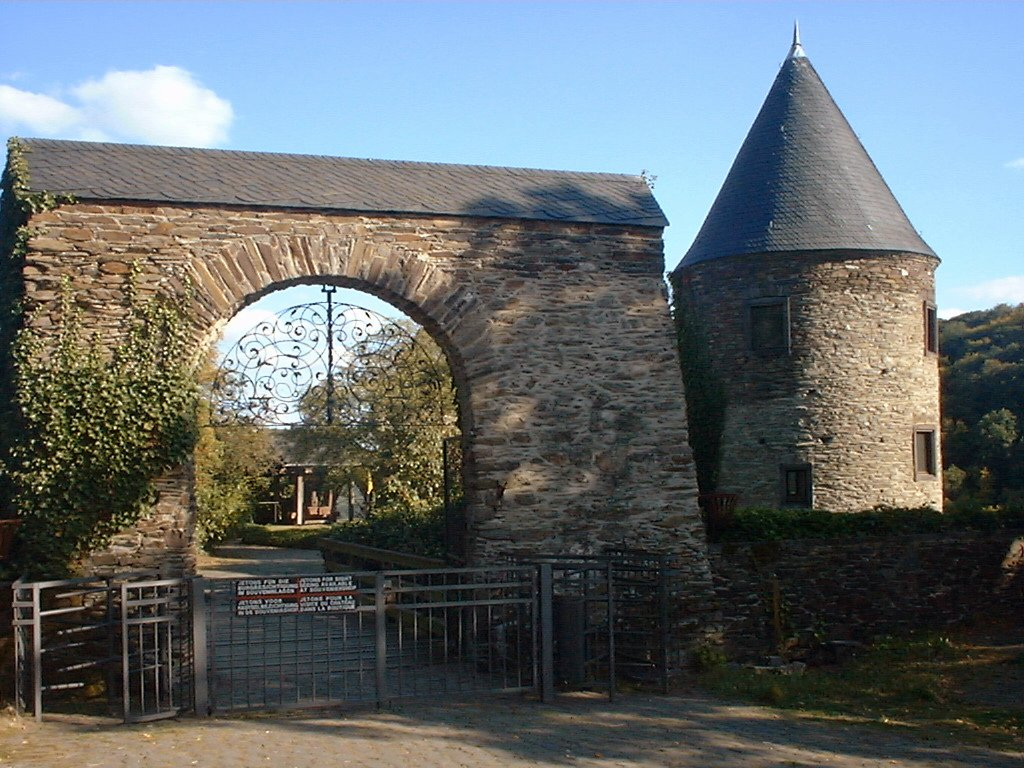 Pyrmont Castle, inner gate